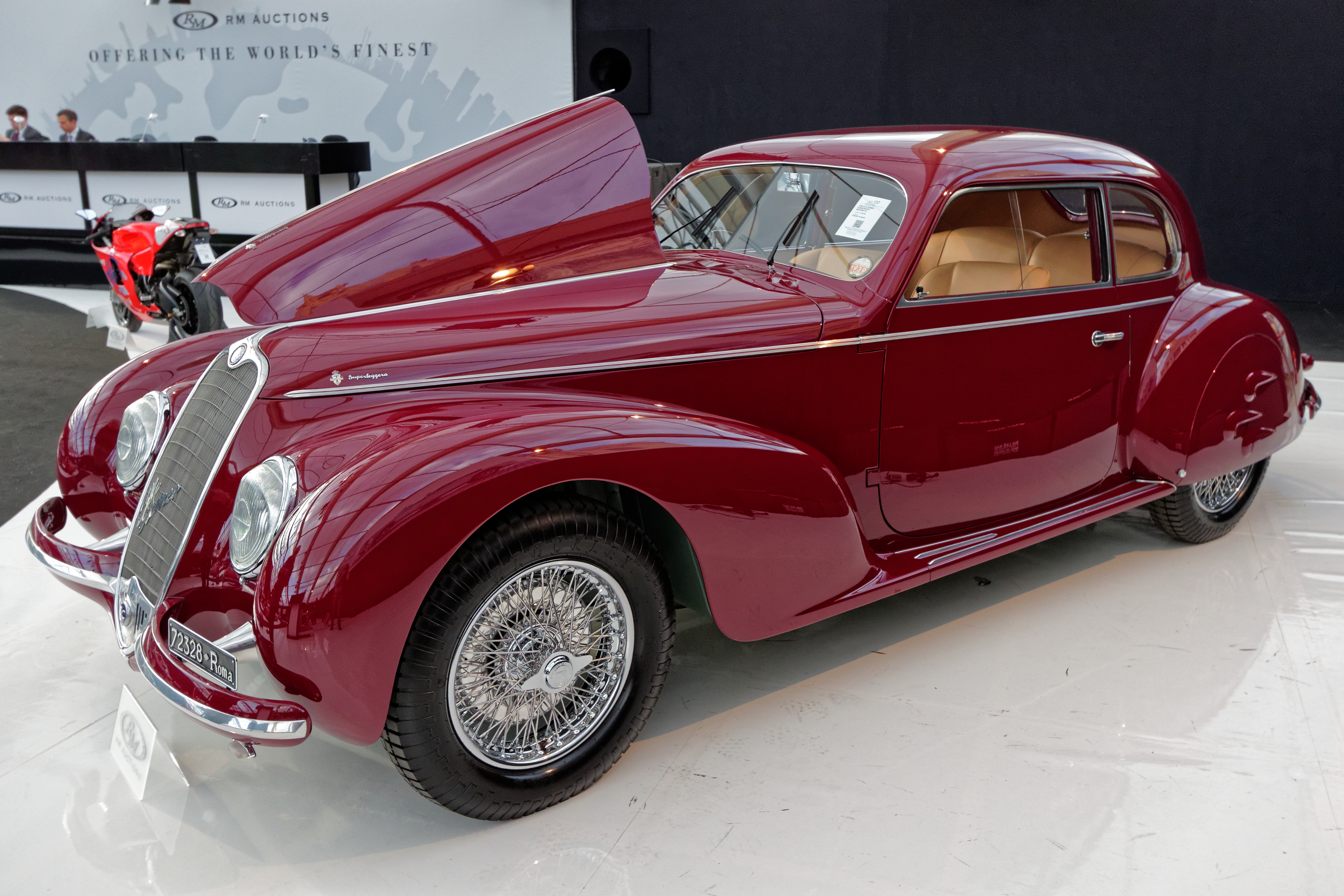 1939-model Alfa Romeo 6C 1500 Berlinetta by Carrozzeria Touring. Chassis number 915.033. Auctioned at RM auctions in Paris (Feb 4, 2015). A car that Benito Mussolini had bought for his girlfriend Clara Petacci.[1]